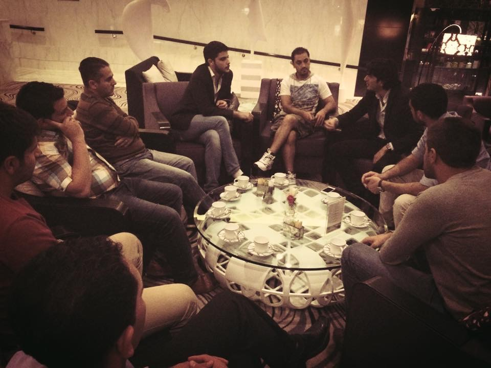 Not Applicable